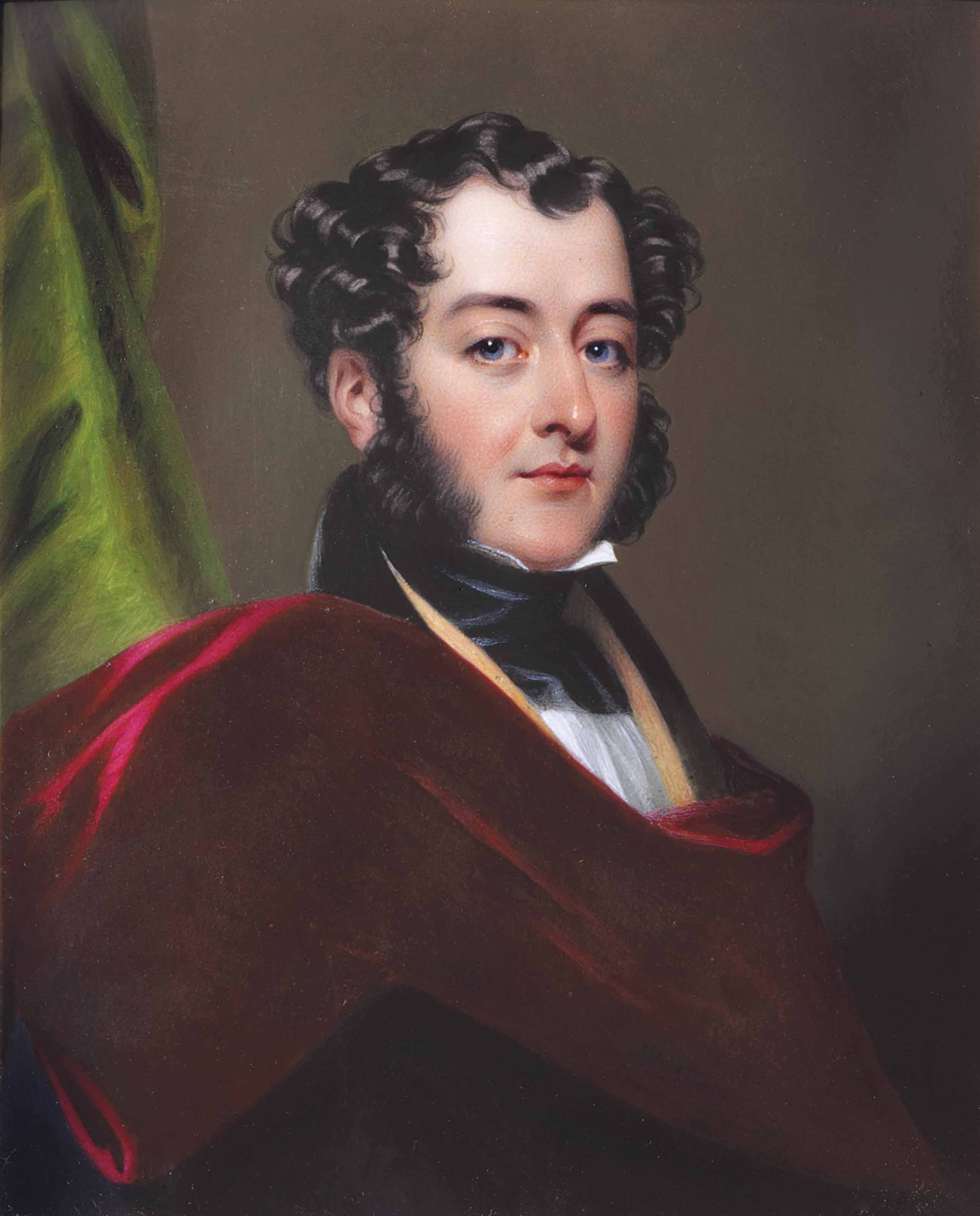 Charles William Bury, 2nd Earl of Charleville (1801-1851) seated in red cloak before a curtain Signed, dated and inscribed in full on the counter-enamel 'Charles William Lord Tullamoore [sic] / London March 1835. Painted from Life / By Henry Pierce Bone, Enamel Painter to / her Majesty & their Royal Highnesses the / Duchess of Kent & Princess Victoria.' Inscribed separately 'April 1834' Enamel on copper Rectangular, 115 x 93 mm., gilt-metal frame Provenance The Property of Walter B. Jowett, Esq.; Christie's, London, 22 May 1973, lot 90 (as 127 mm. high). Alvin J. Huss (1904-1998) Collection, Evanston, Ill.; Sotheby's, London, 4 December 1985, lot 174 (erroneously illustrated as lot 177). Mellors & Kirk, Nottingham, 30 March 2000, lot 179. With Claudia Hill, Ellison Fine Art, by 23 December 2002. Sold, Christie's, London, SALE 10397 - Centuries of Style: Silver, European Ceramics, Portrait Miniatures and Gold Boxes, 2 - 3 June 2015, #406, estimate : GBP 3,000 - GBP 5,000, sold forGBP 3,750.